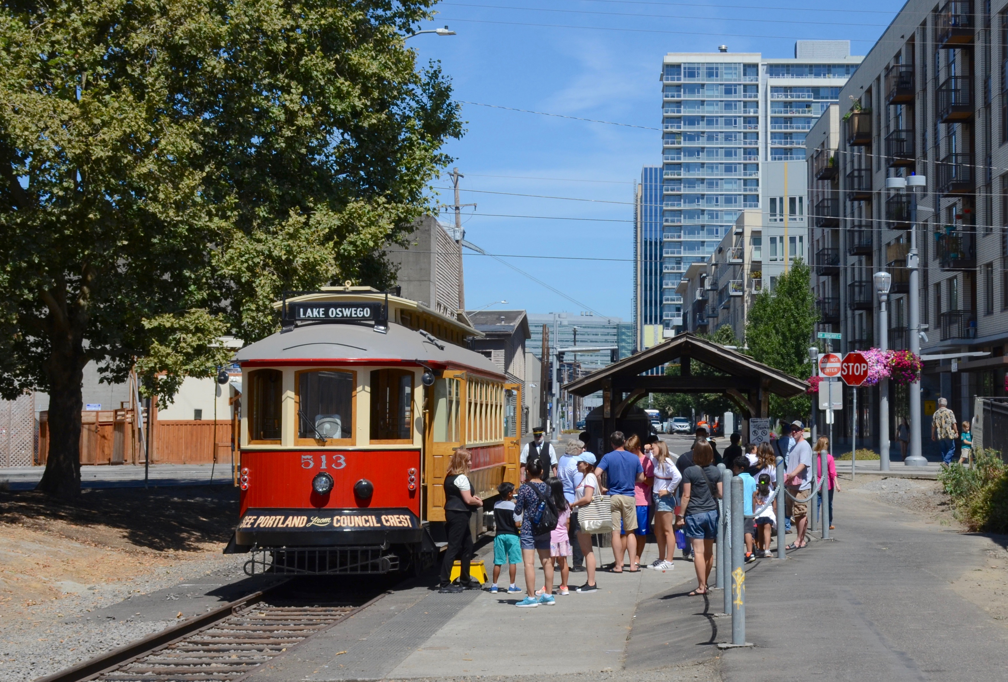 The Willamette Shore Trolley's Bancroft Street terminus, in Portland (Oregon), with passengers waiting to board car 513. No. 513 is a replica of a 1903/04 Brill streetcar that was built in 1991 by the Gomaco Trolley Company, originally for use on the Portland Vintage Trolley service. It was last used on that service in 2005 and, after many years in storage, it was refurbished for use on the WST and entered service on the WST line in May 2018.